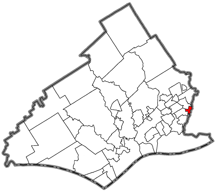 Showing the location within Delaware County, Pennsylvania.